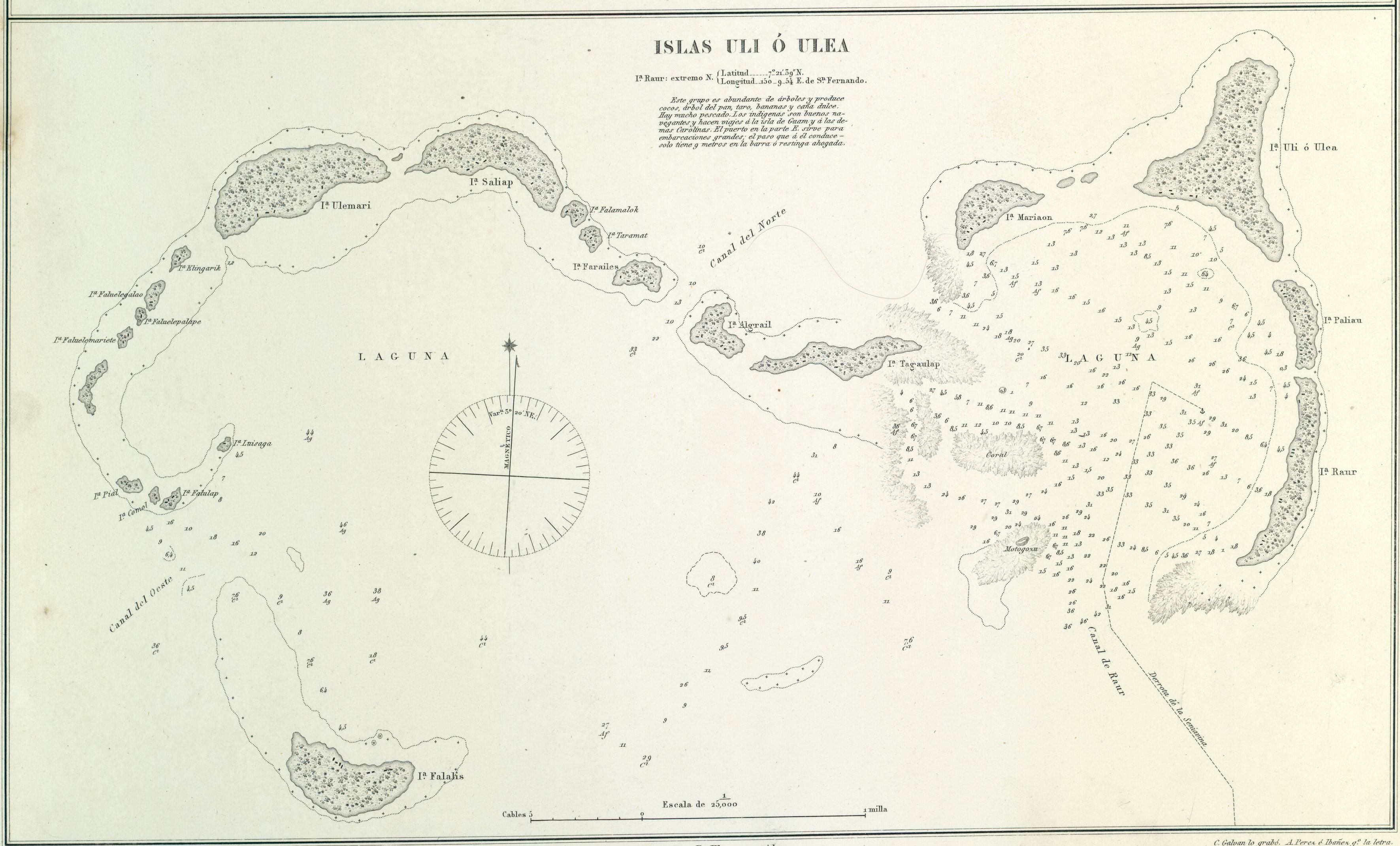 1886 nautical map in Spanish by Clemente Galván (engraving) and A. Pérez e Ibañez (text), after Russian and English works. The map shows Olimaraos, Piagailoe (West Fayu), Pikelot, Elato, Lamotrek and Woleai islands (Islas Uli). Madrid, Dirección de Hidrografía, 1886. 63 x 45 cm